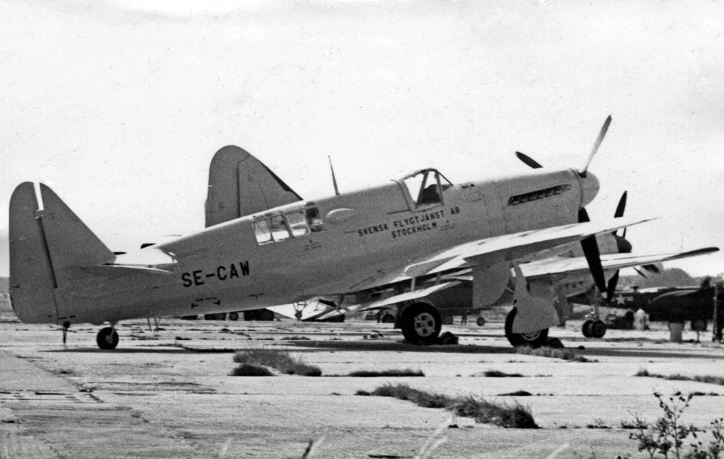 Fairey Firefly TT.1 target tug aircraft of Svensk Flygtjanst AB Stockholm after modification to its new role by Fairey Aviation at Manchester Airport